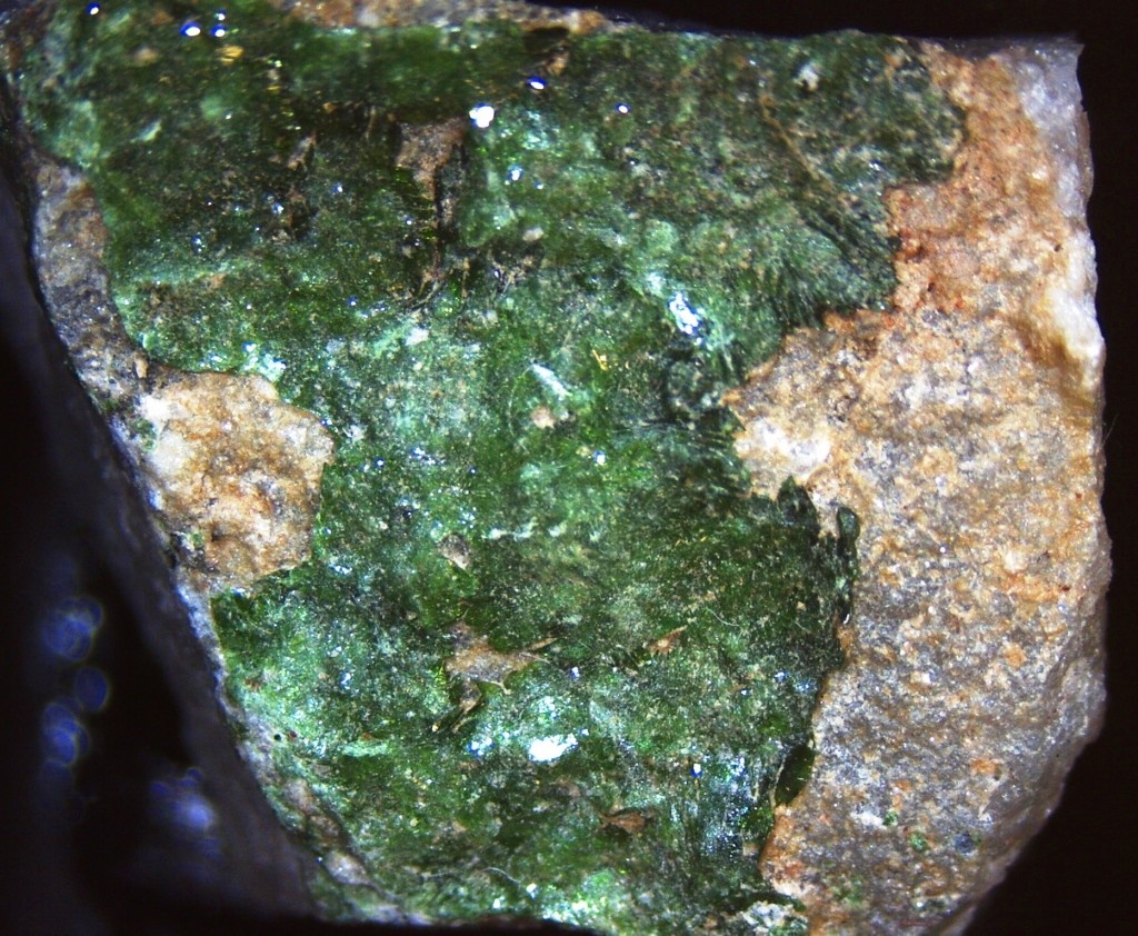 Lindgrenite (Size: 2 cm) Locality: Inspiration, Miami-Inspiration District, Globe-Miami District, Gila County, Arizona, USA Original description: Lingrenite crystals, location is listed as Inspiration Copper Company; there isn't an entry for Inspiration Copper company, only for the mine.